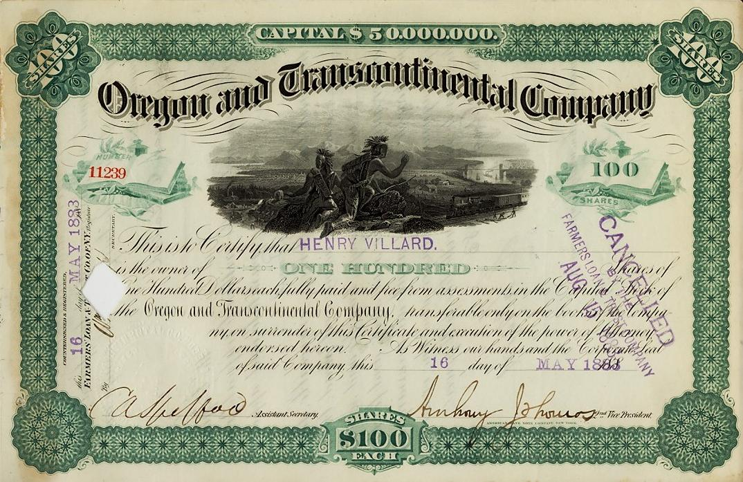 Oregon and Transcontinental stock certificate owned by Henry Villard, Norris L Brookens Library, University of Illinois at Springfield